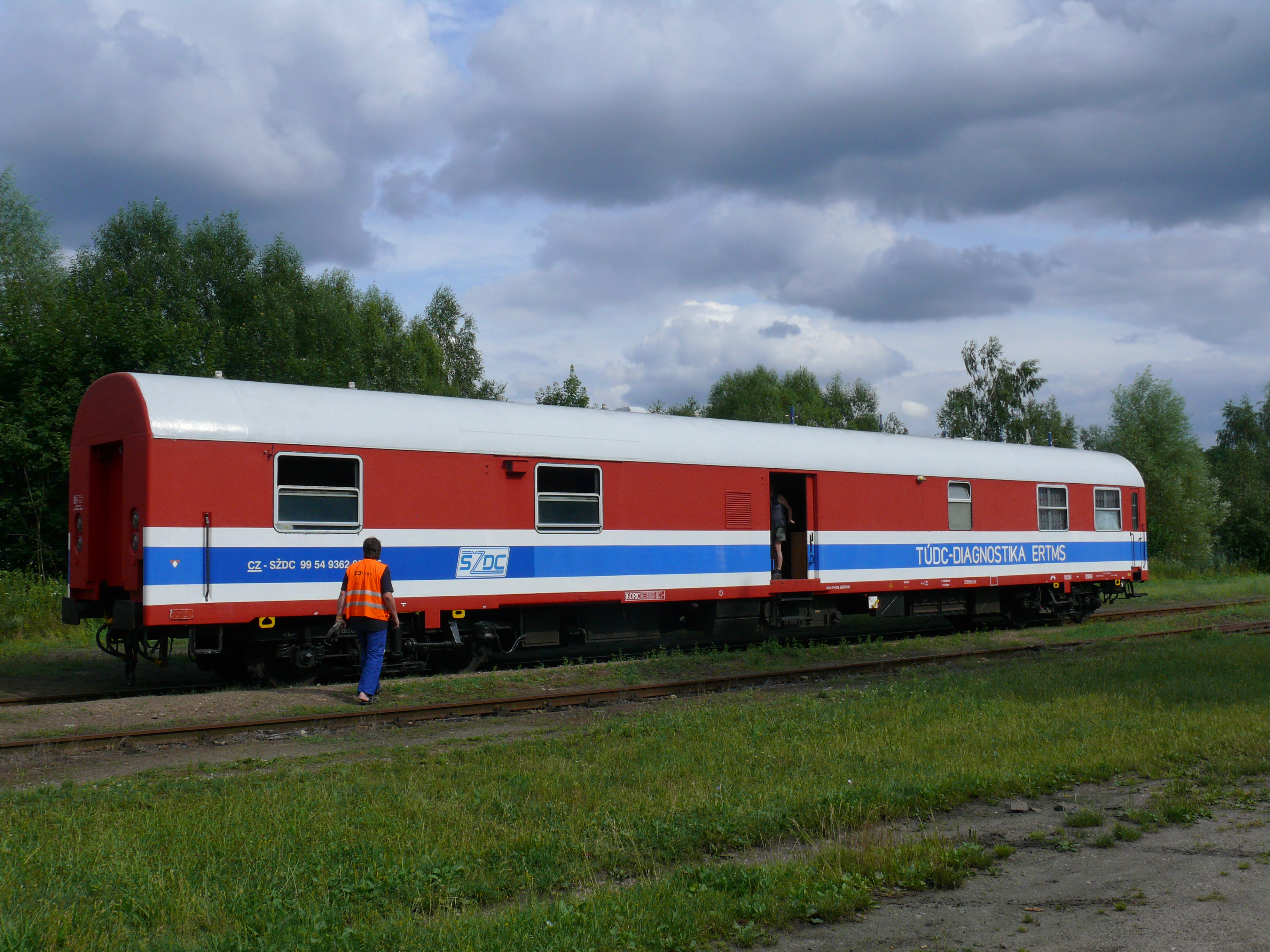 Measuring car MV ERTMS1 of SŽDC.